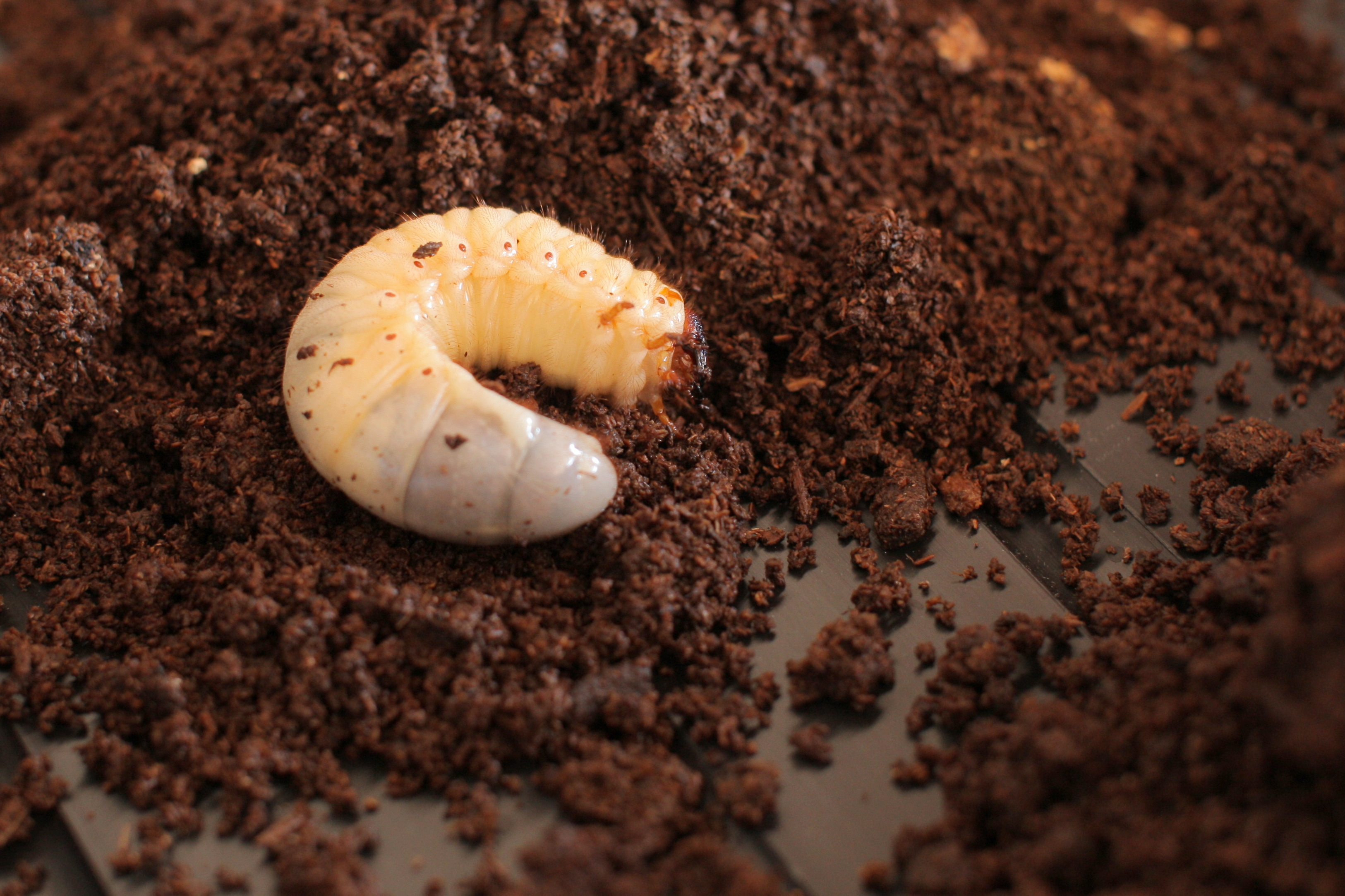 Level 3 Larva of Allomyrina dichotoma (Japanese Rhinoceros Beetle).